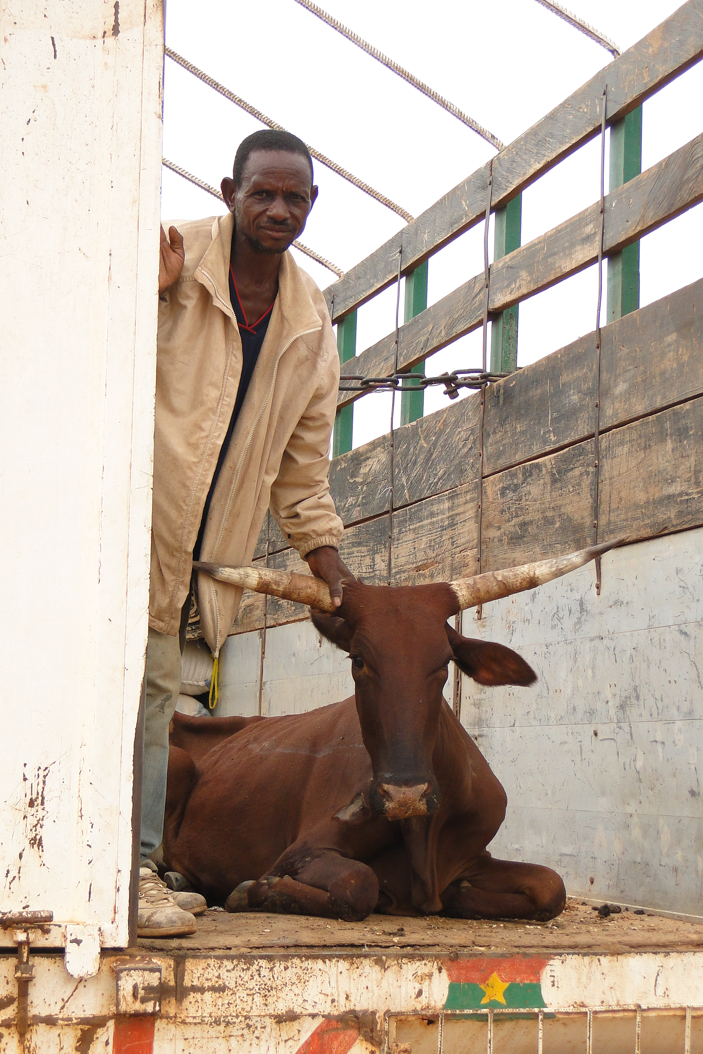 A Load of Bull - Dori - Sahel Region - Burkina Faso